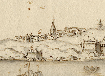 The Fort of St. John of the Maias and the Town and County of Oeiras, in Vista e perspectiva da Barra, Costa e Cidade de Lisboa by Bernardo de Caula, 1763.